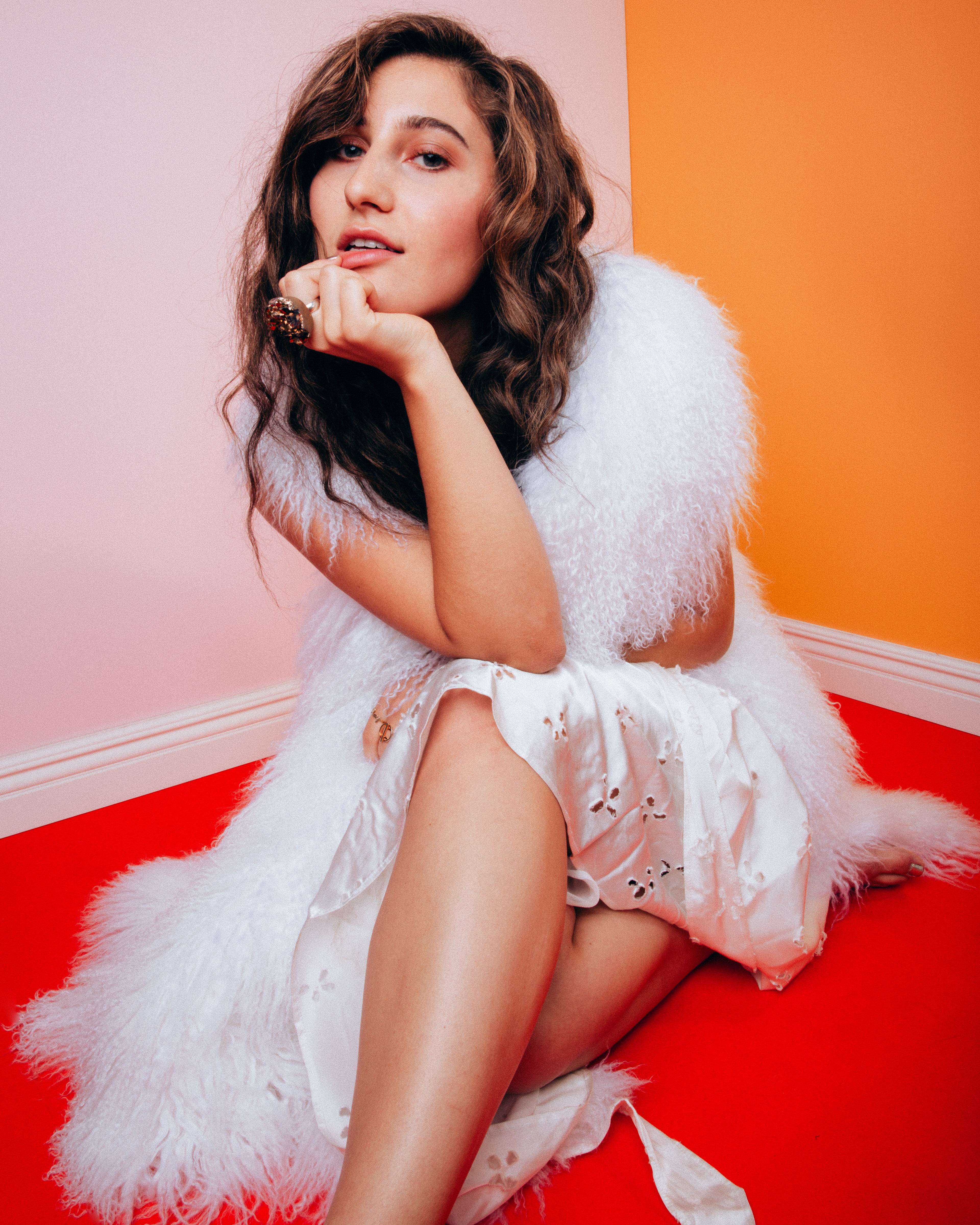 Photo taken in Brooklyn